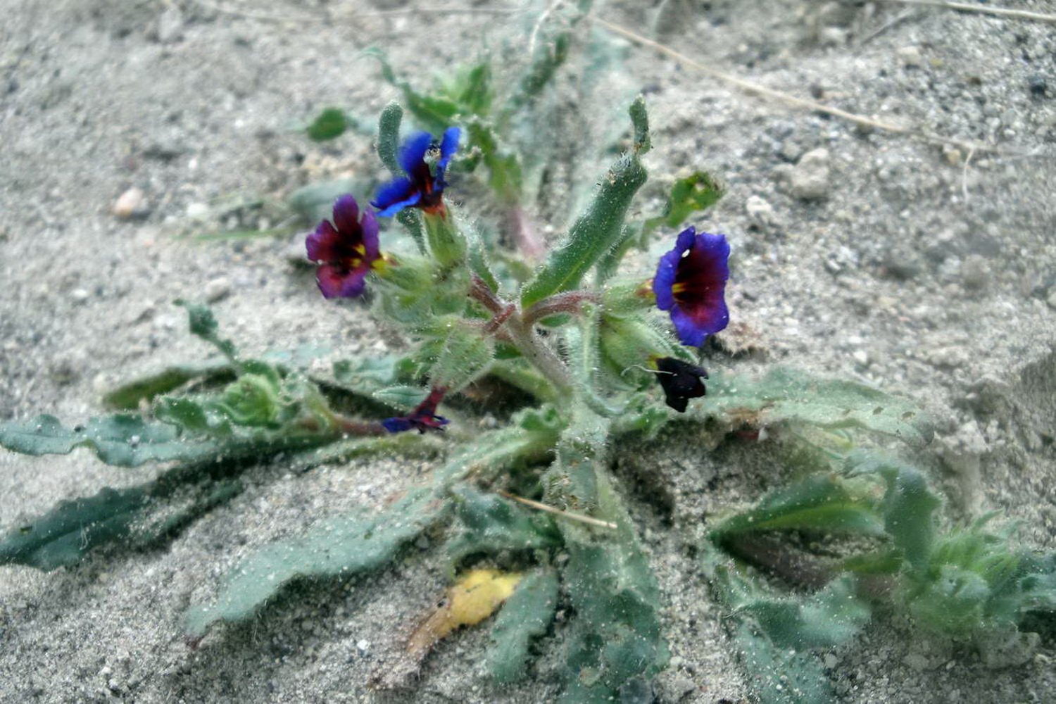 Nonea polychroma